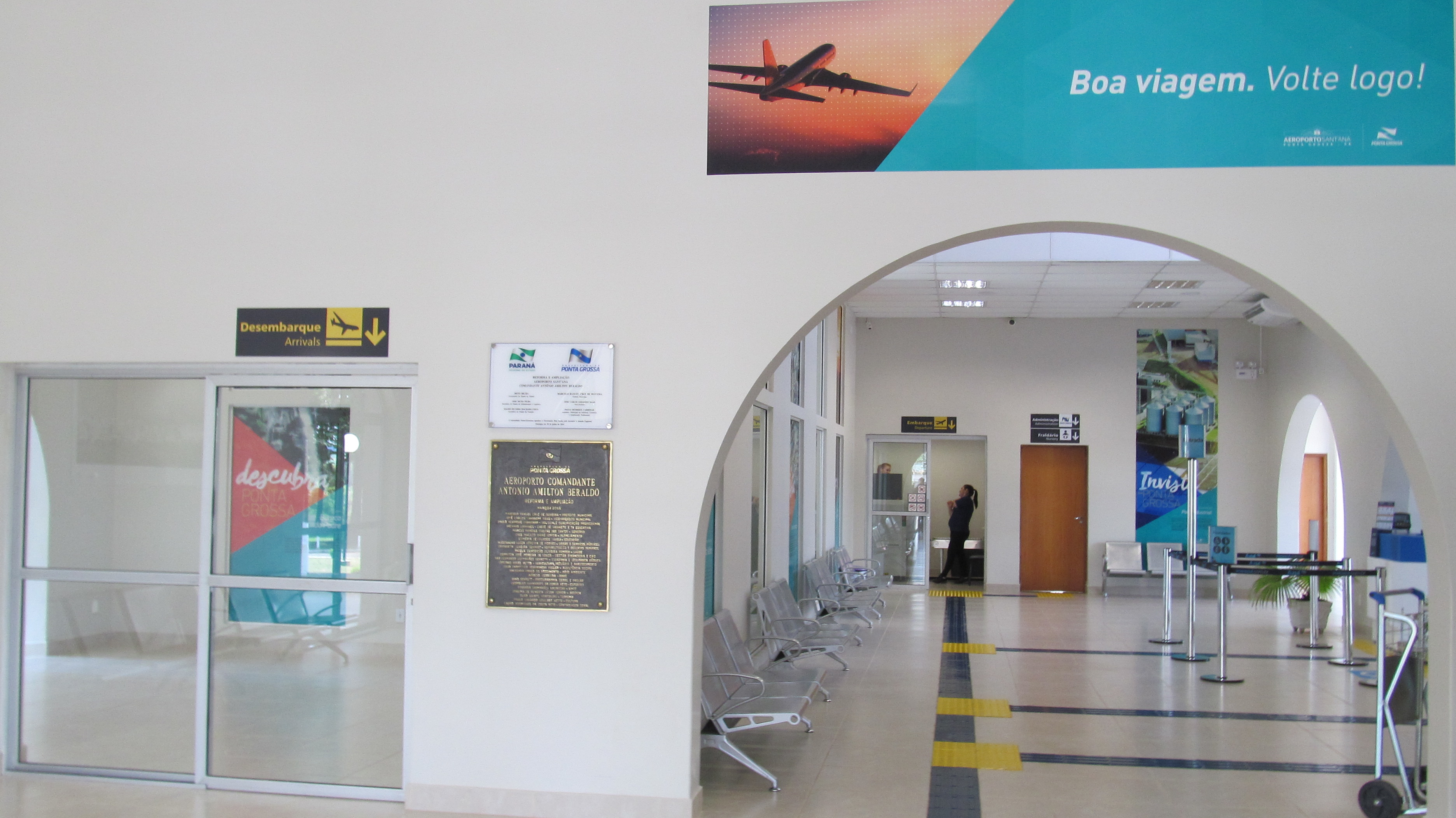 Interior of Ponta Grossa Airport (PGZ) Paraná, Brasil, with Check-in, Arrival and Departure